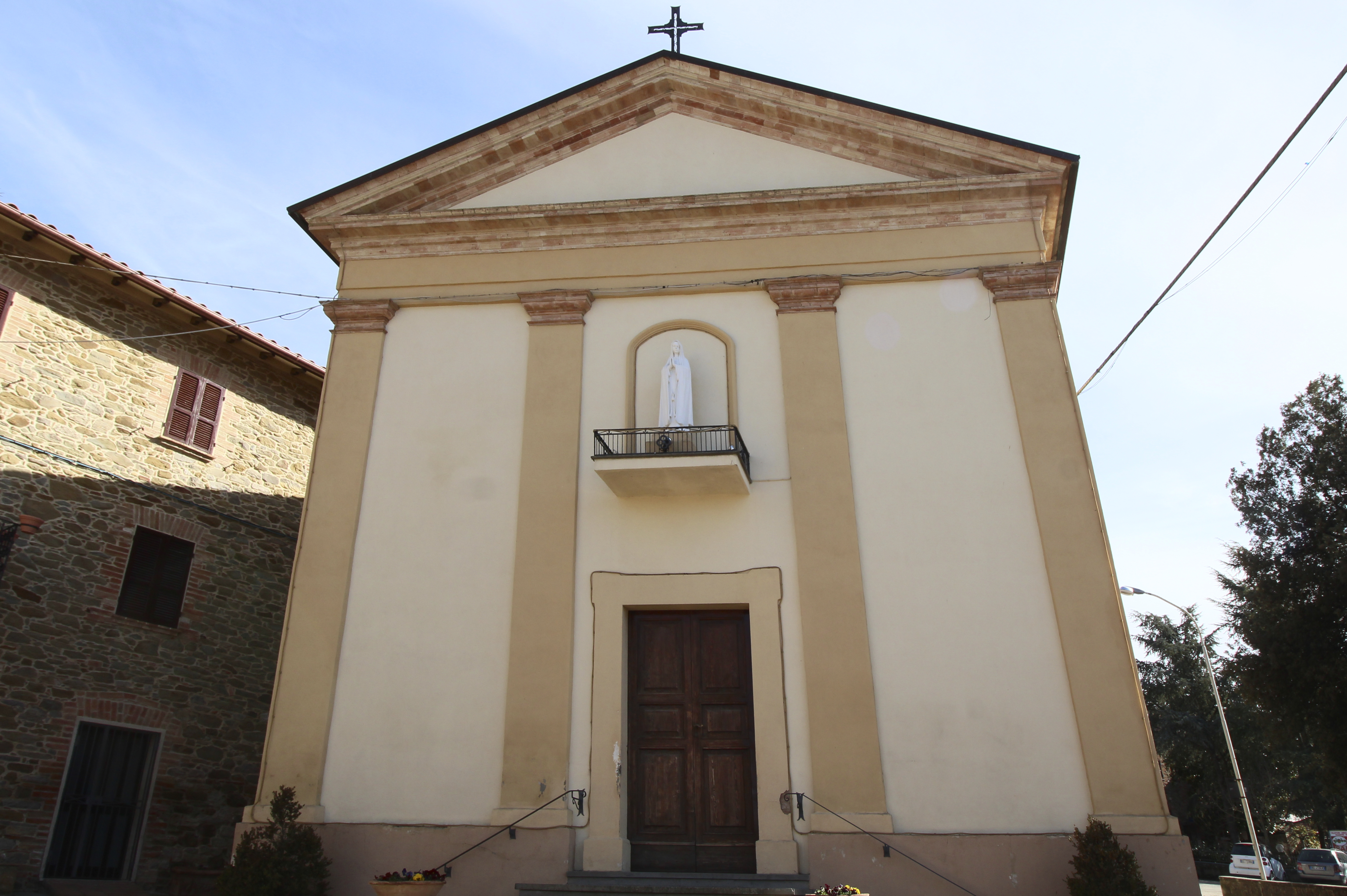 Church Santa Maria Assunta, Pietrafitta, hamlet of Piegaro, Province of Perugia, Umbria, Italy